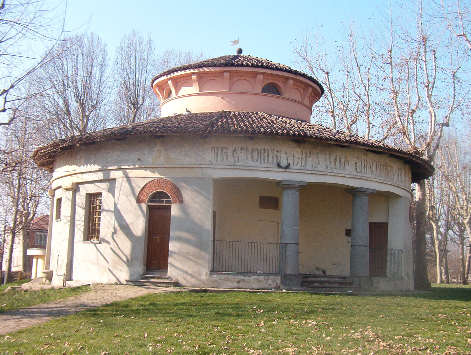 La Rotonda, Vigone, Italy; built in 1825 as an icehouse, currently used for exhibitions